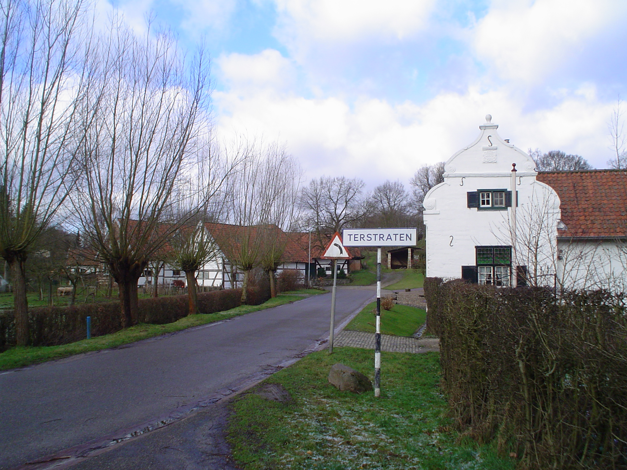 The hamlet Terstraten, near Nuth